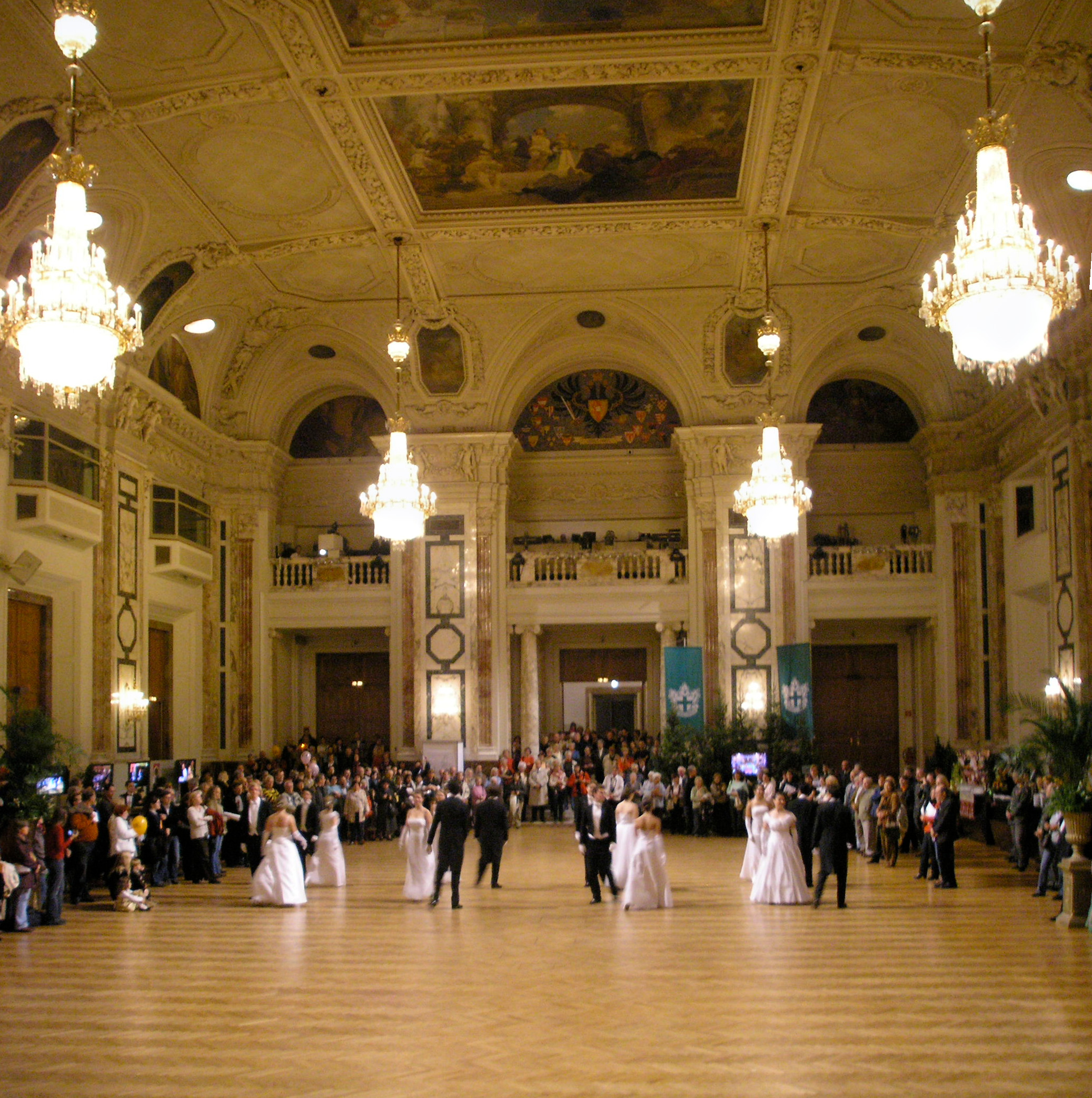 Festsaal in the Hofburg.